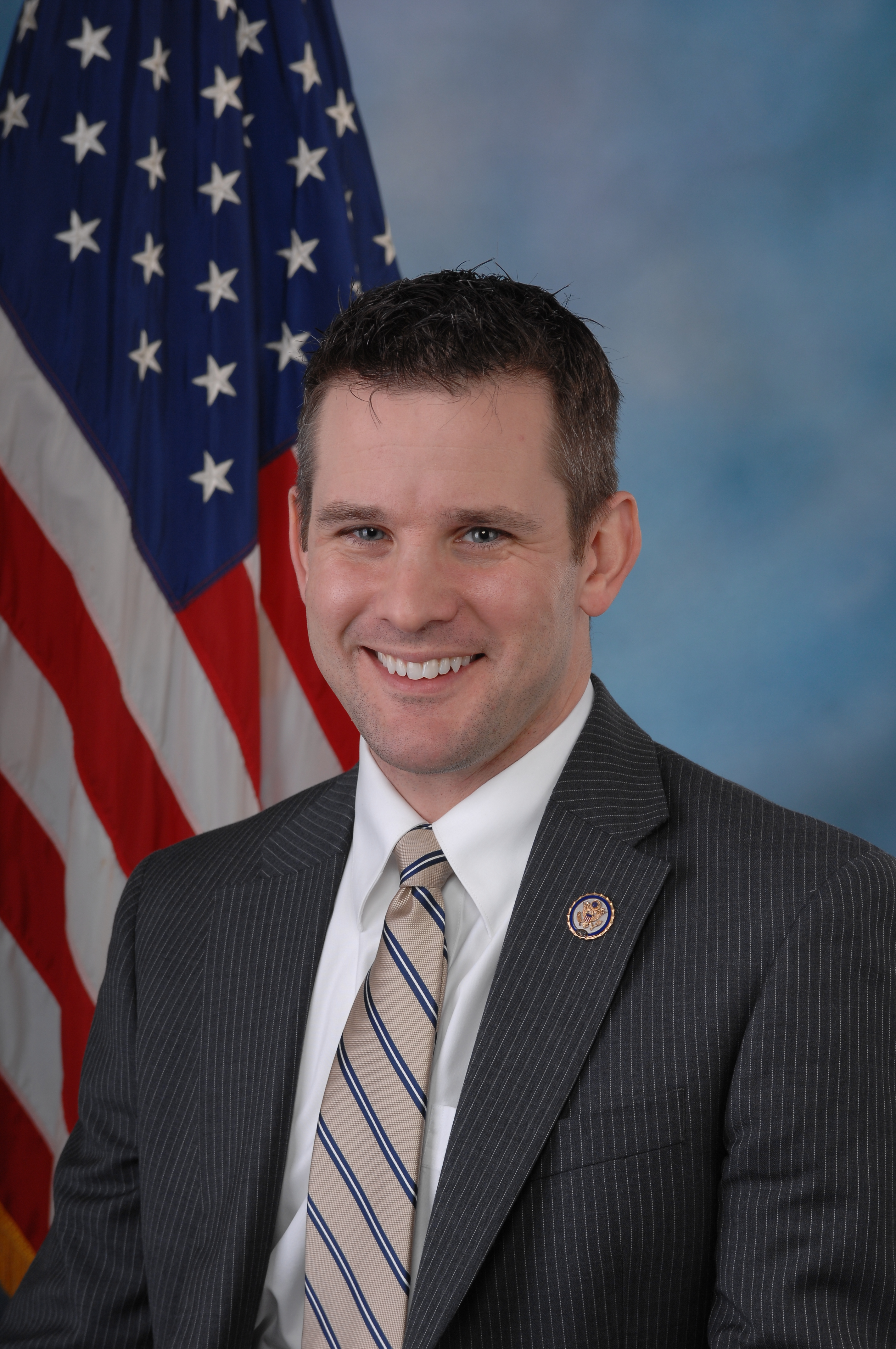 Official portrait of US Congressman Adam Kinzinger